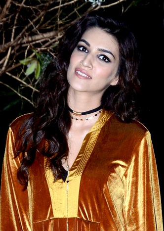 at Manish Malhotra’s 50th birthday bash